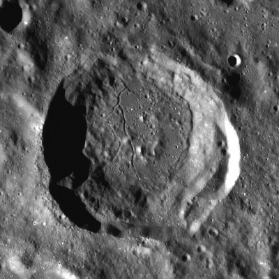 Beals crater LROC image